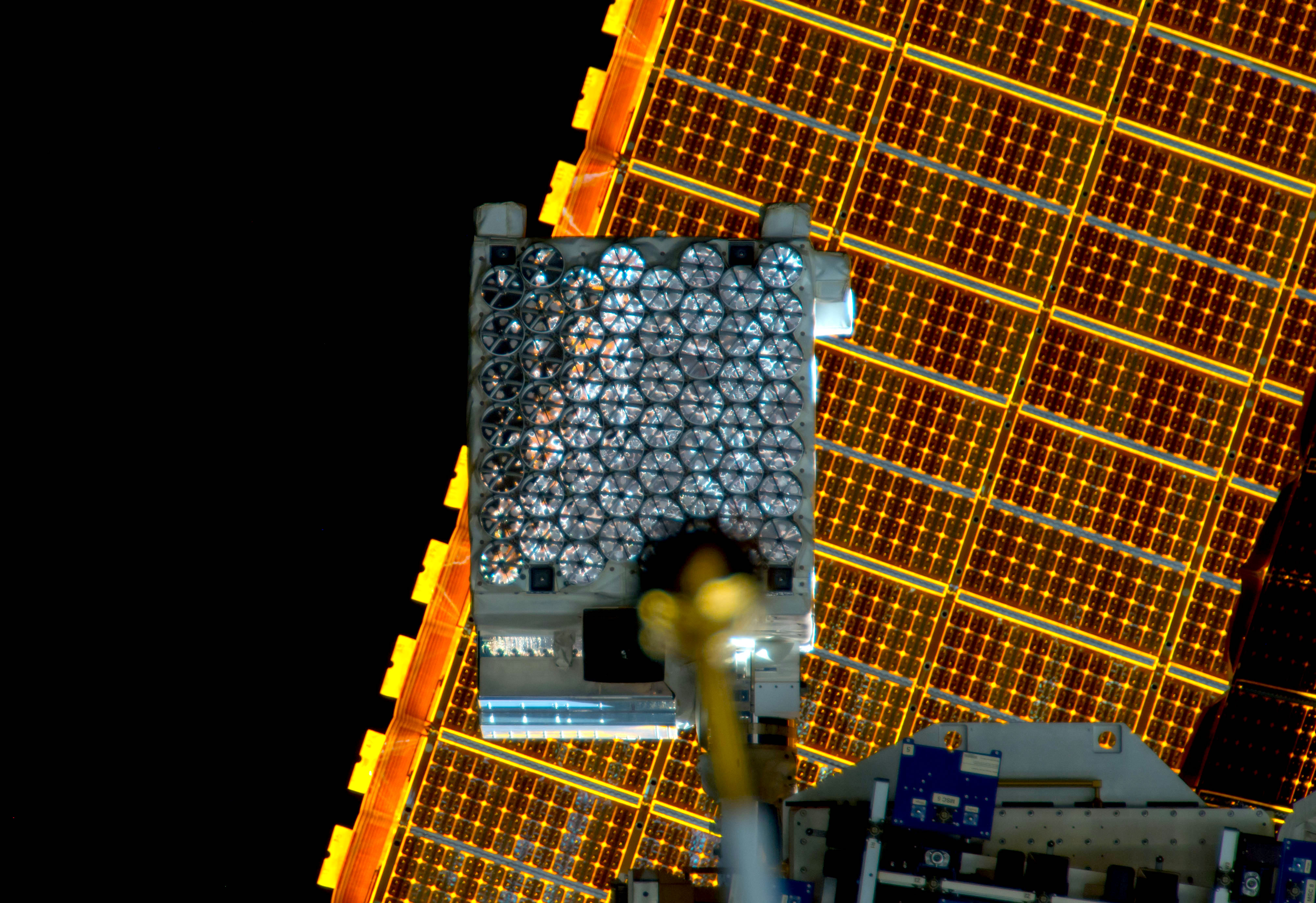 View of the Neutron Star Interior Composition ExploreR (NICER) payload, attached to the ELC 2 pallet of the ISS. A solar array can be seen behind.